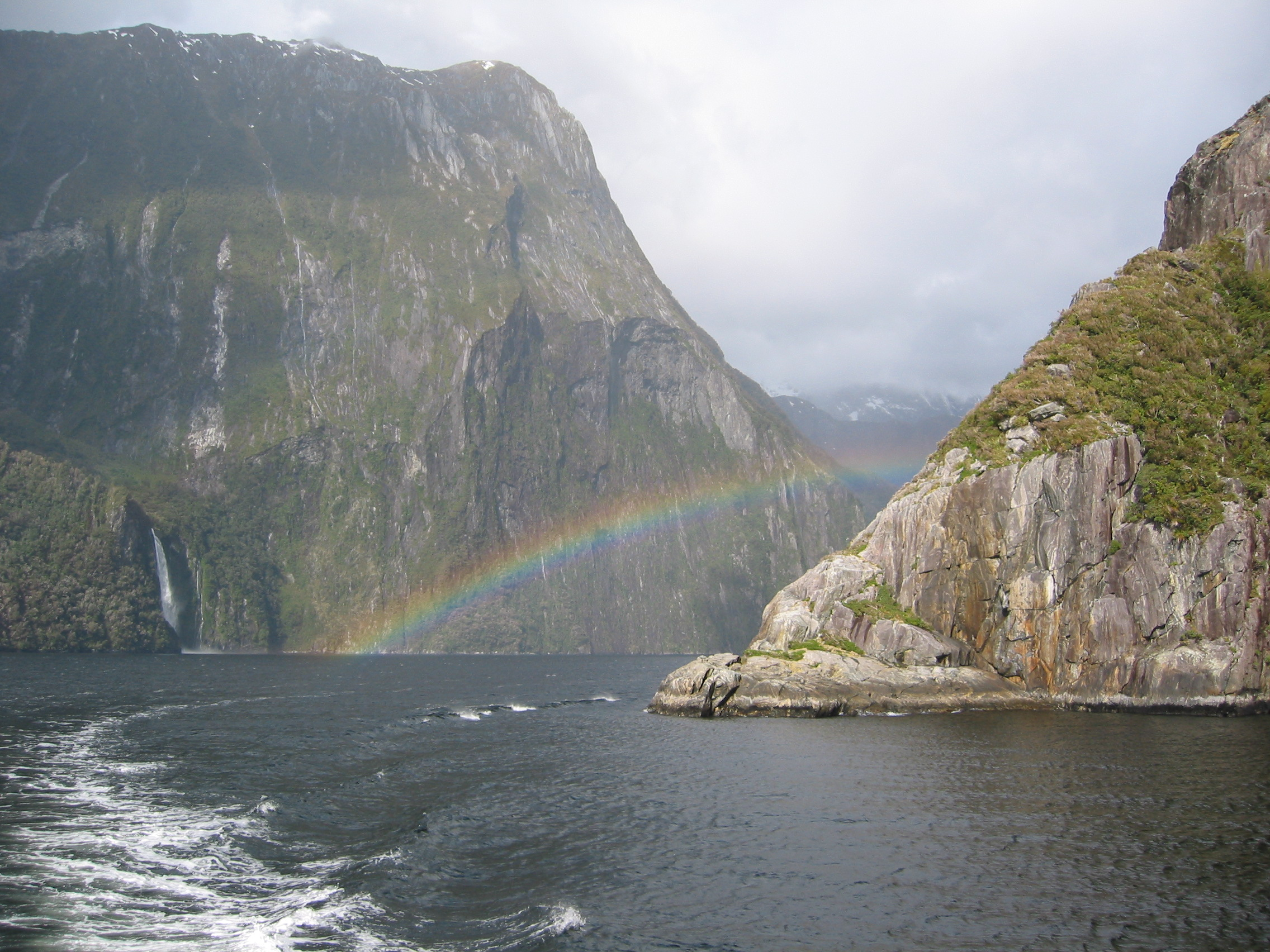 Rainbow in Milford Sound; Stirling Falls in the background on the left 2 nov 2005 23:08 Beast from the Bush 2272x1704 (1157293 bytes)